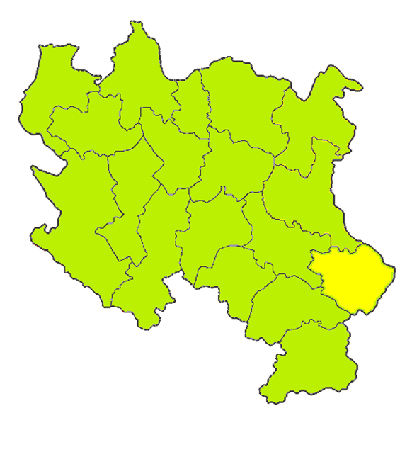 Map of Pirot